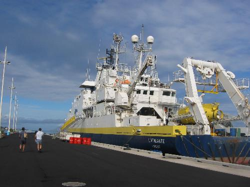 The french research vessel Atalante in Papeete (Tahiti)